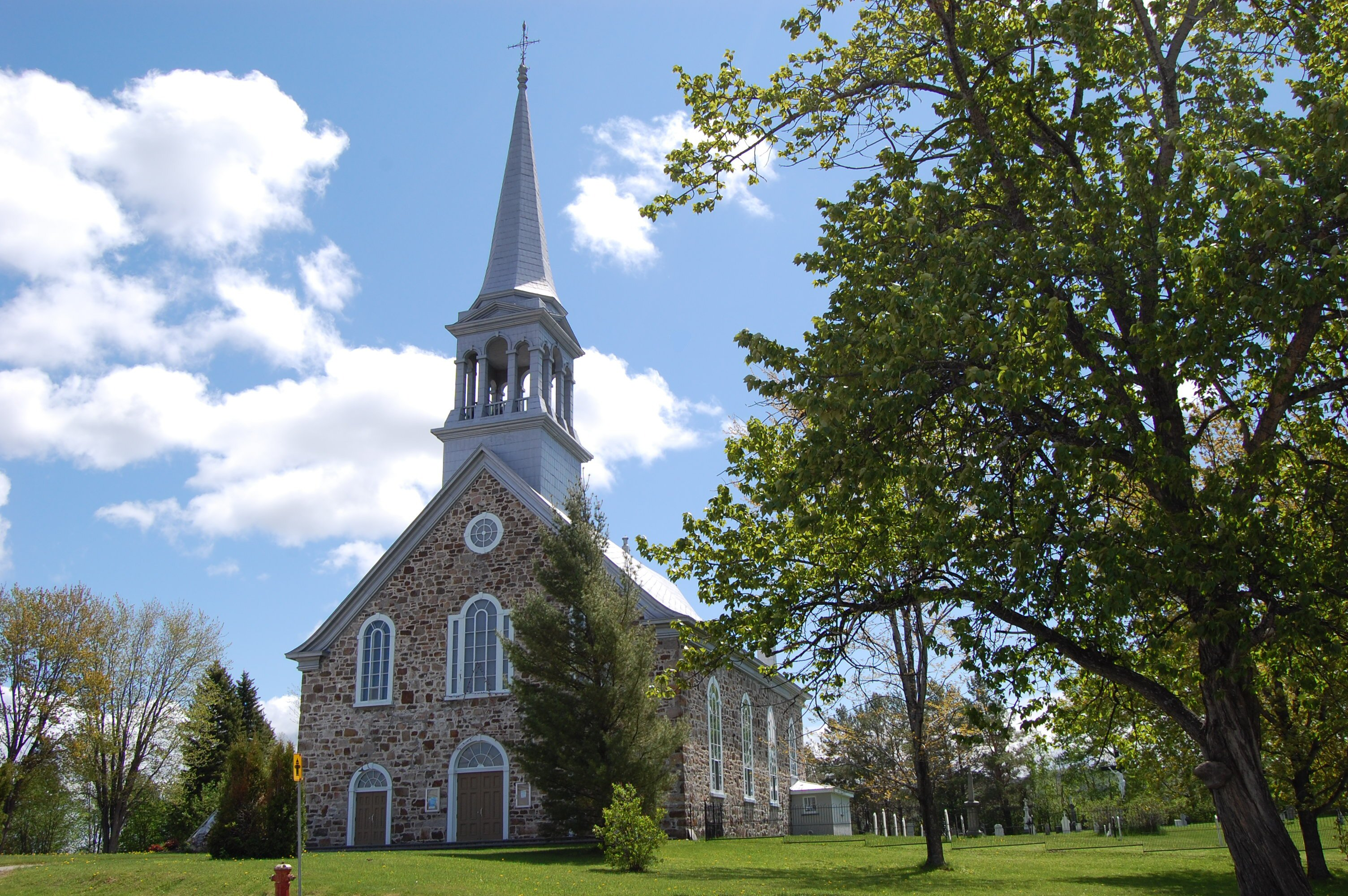 Notre-Dame church of Laterrière, Québec.